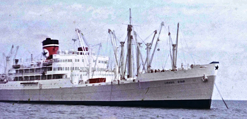 1947-1972 one of the replacements for war losses